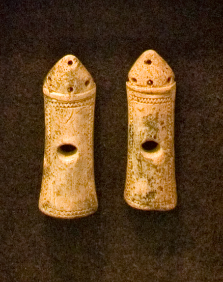 Objects found during excavations